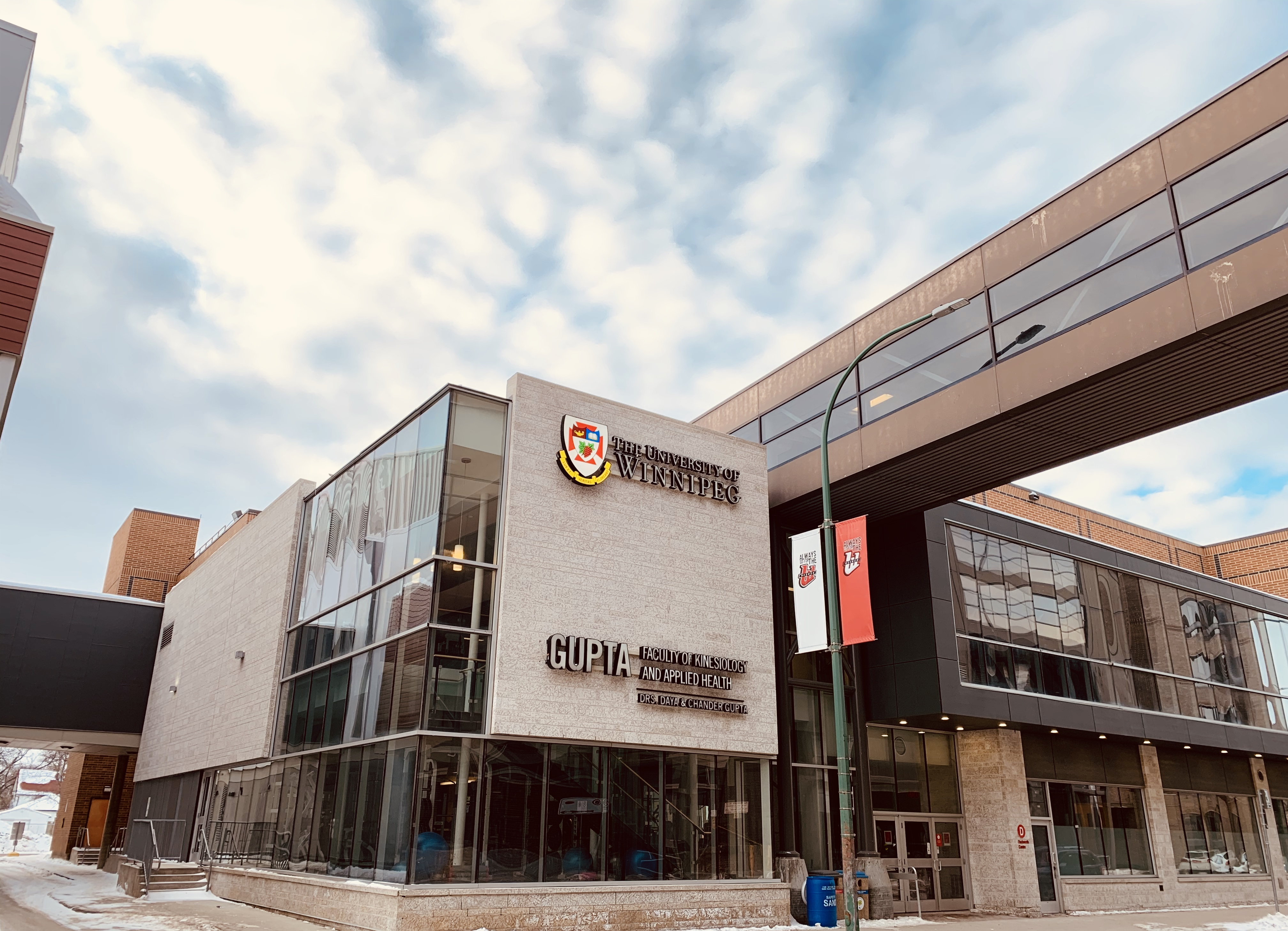 Home of the Dr David F. Anderson Gymnasium and the Bill Wedlake Fitness Centre.